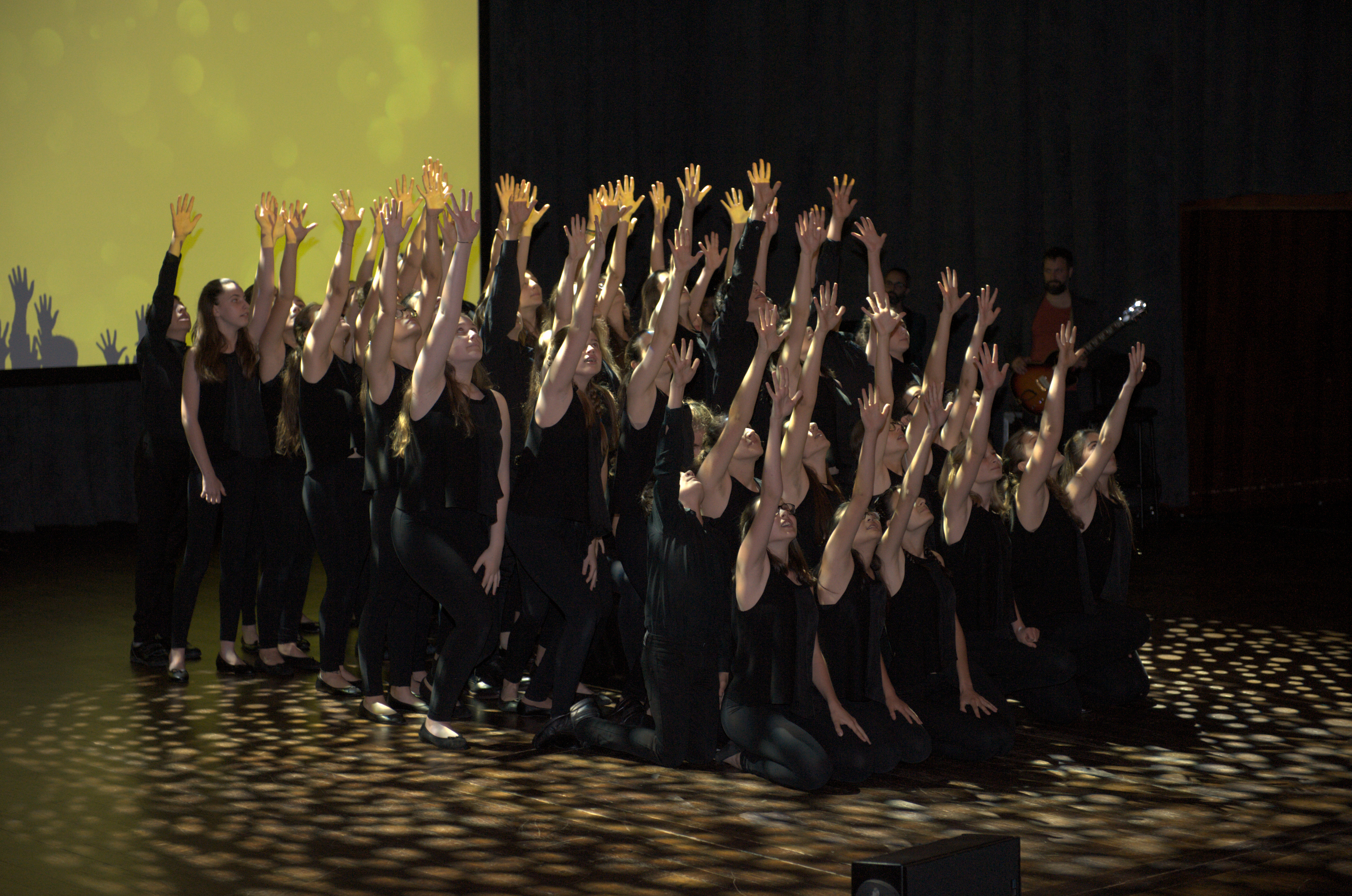 Photo taken during a concert by Veus - Cor Infantil Amics de la Unió